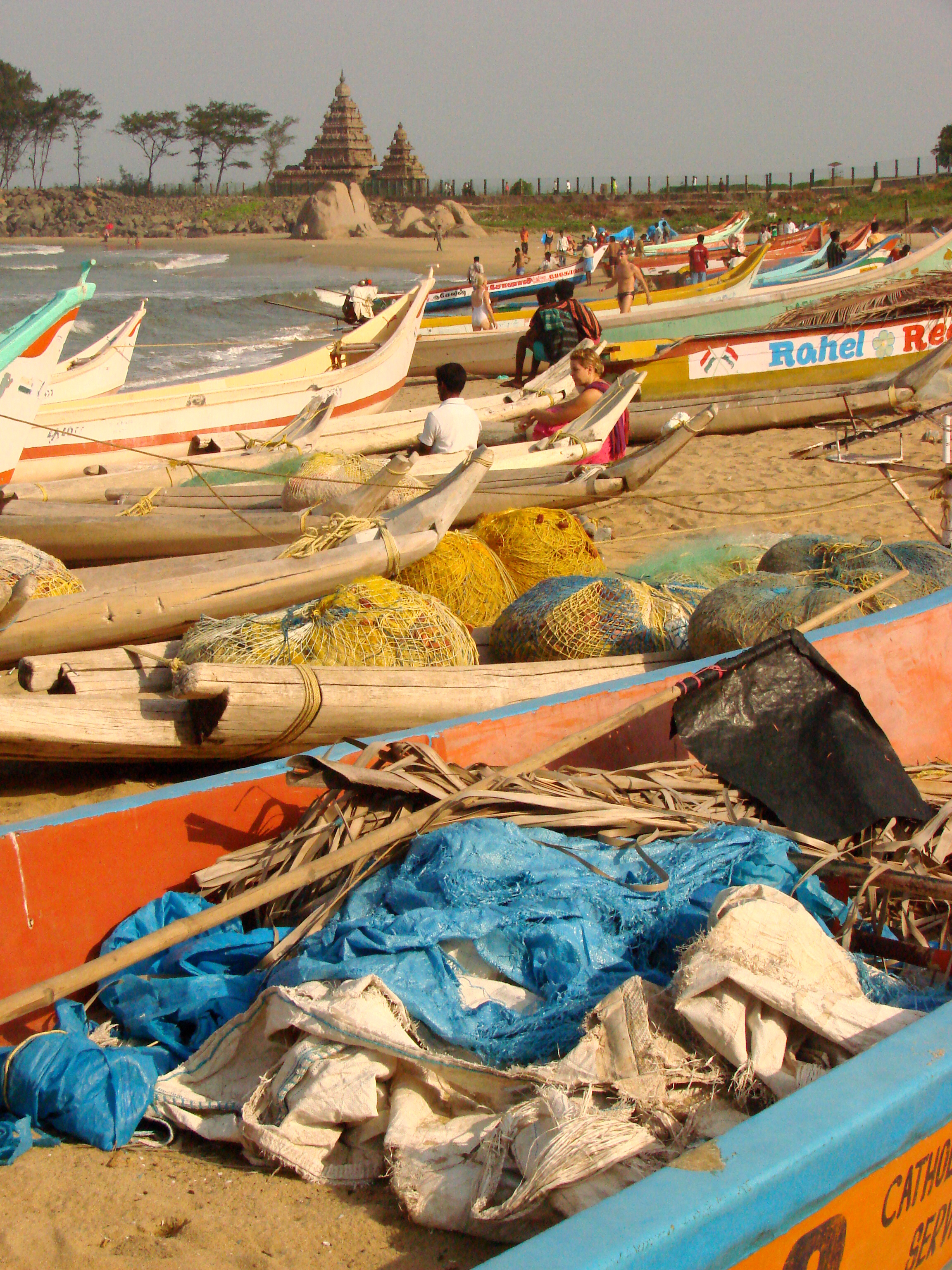 Fishing boats along the beach, with the Shore Temple in the distance. Mamallapuram, India. July 2008.